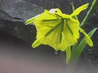 Amancaes. Endemic flower from outlands of Lima, in extinction process by global warming.